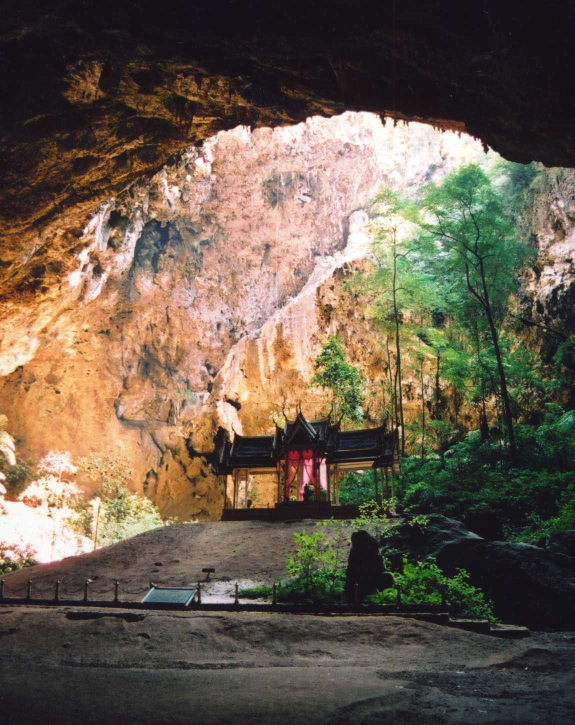 The Phraya Nakhon cave in Khao Sam Roi Yod National Park, Prachuap Khiri Khan, Thailand. The Kuha Karuhas pavilion in the middle of the picture is the symbol of the Prachuap Khiri Khan province. Photo taken by User:Ahoerstemeier on January 12 2005.